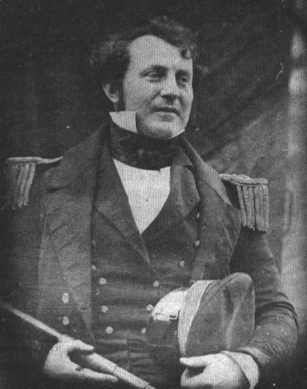 A daguerreotype of Lieutenant James Fitzjames (later Captain) of the Royal Navy, taken by Richard Beard at his temporary dockside studio in Greenhithe, England, shortly before the Northwest Passage expedition's departure on 19 May 1845.